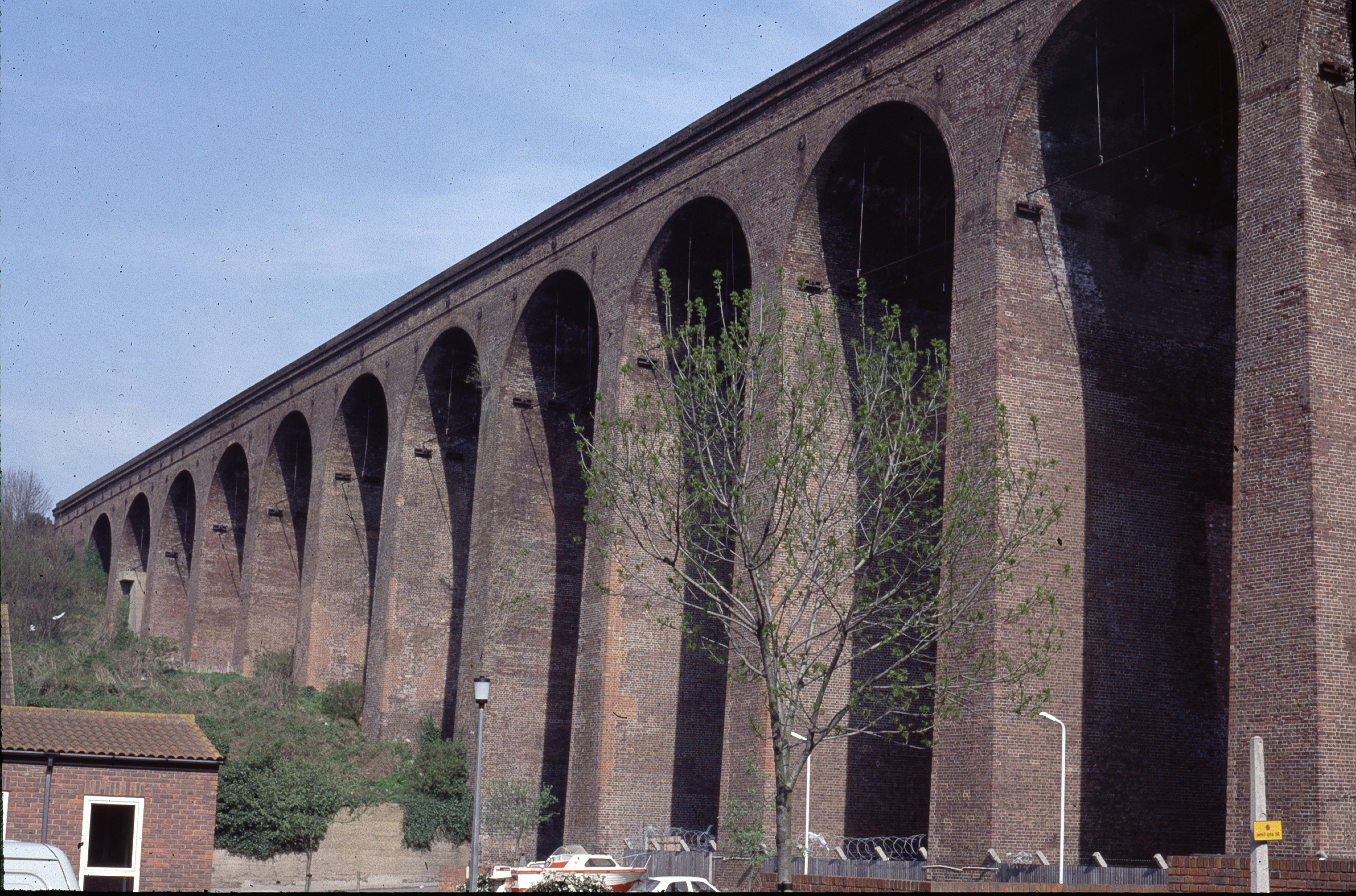 Near Folkstone station Kent